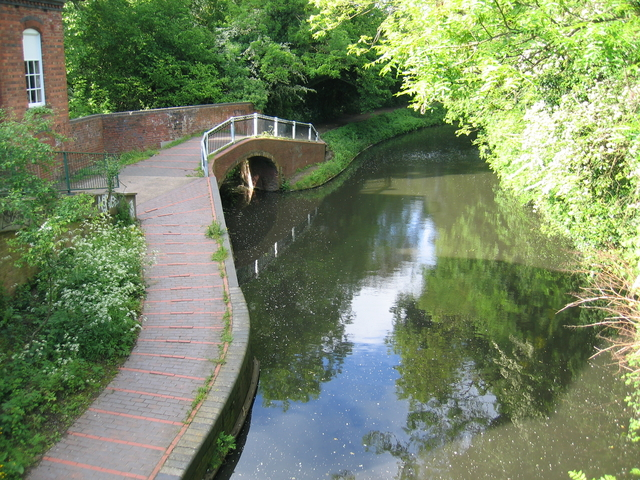 Stratford upon Avon Canal at the Alcester Road. Looking east from the bridge at Millpool Hill. The small bridge on the left would once have led to a small wharf or private loading arm.